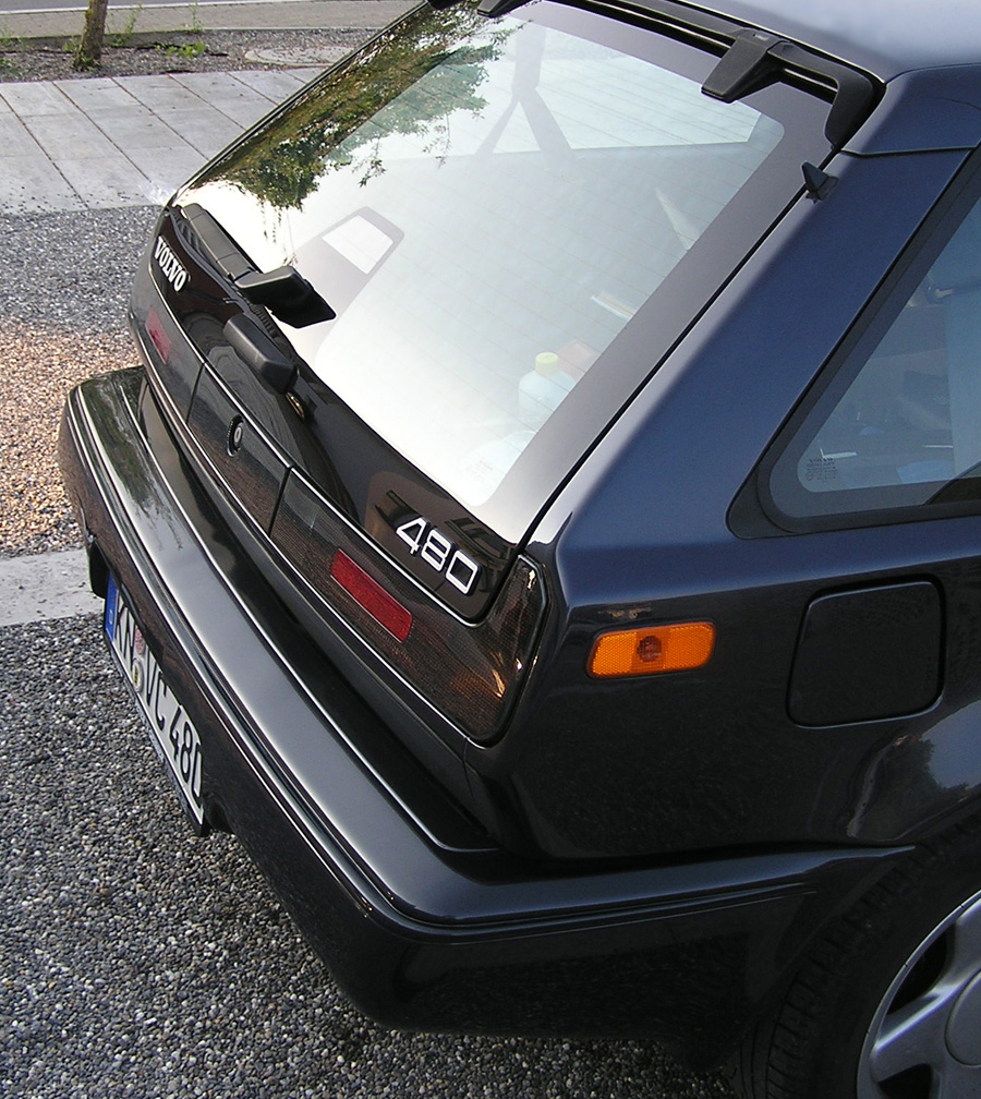 Rear View of Volvo 480